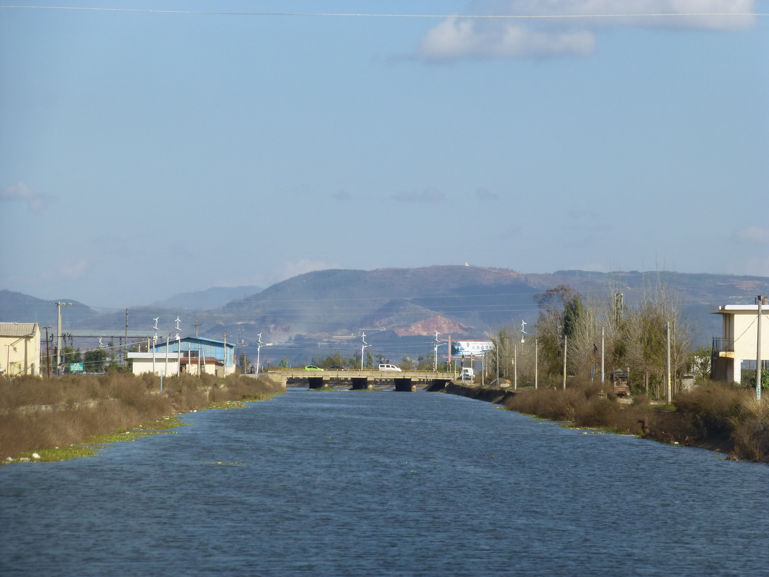 Along the Hongqi River, flowing into Qilu Lake from the southeast.